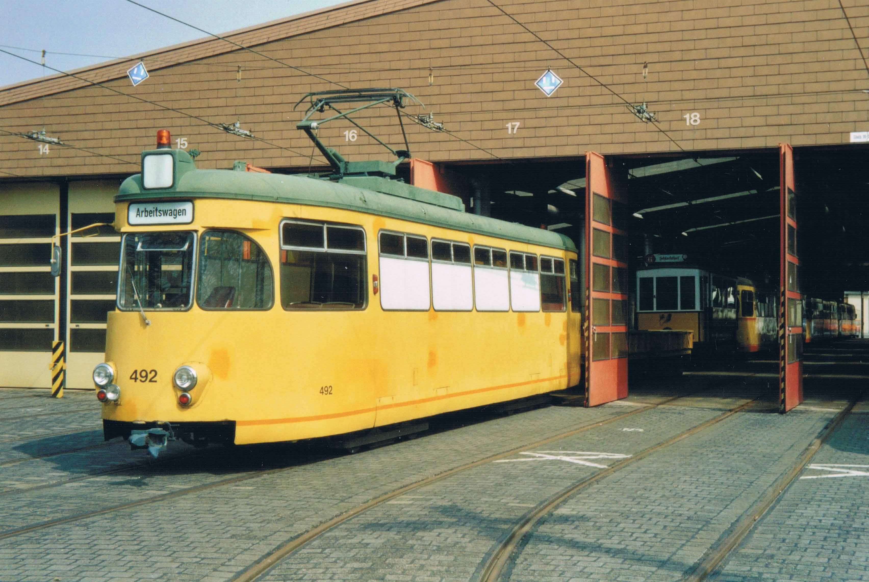 Maintenance car 492 of Karlsruhe tramway.